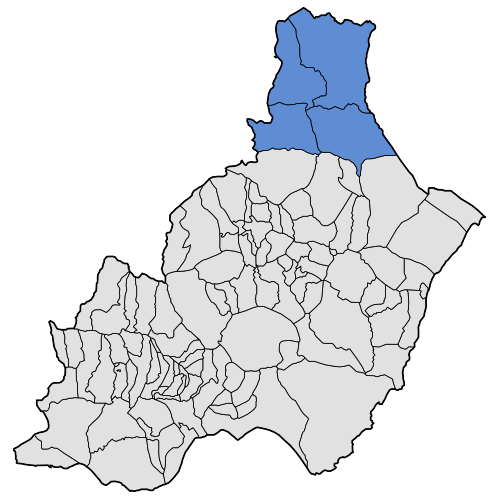 Map of Los Vélez, region of province of Almería